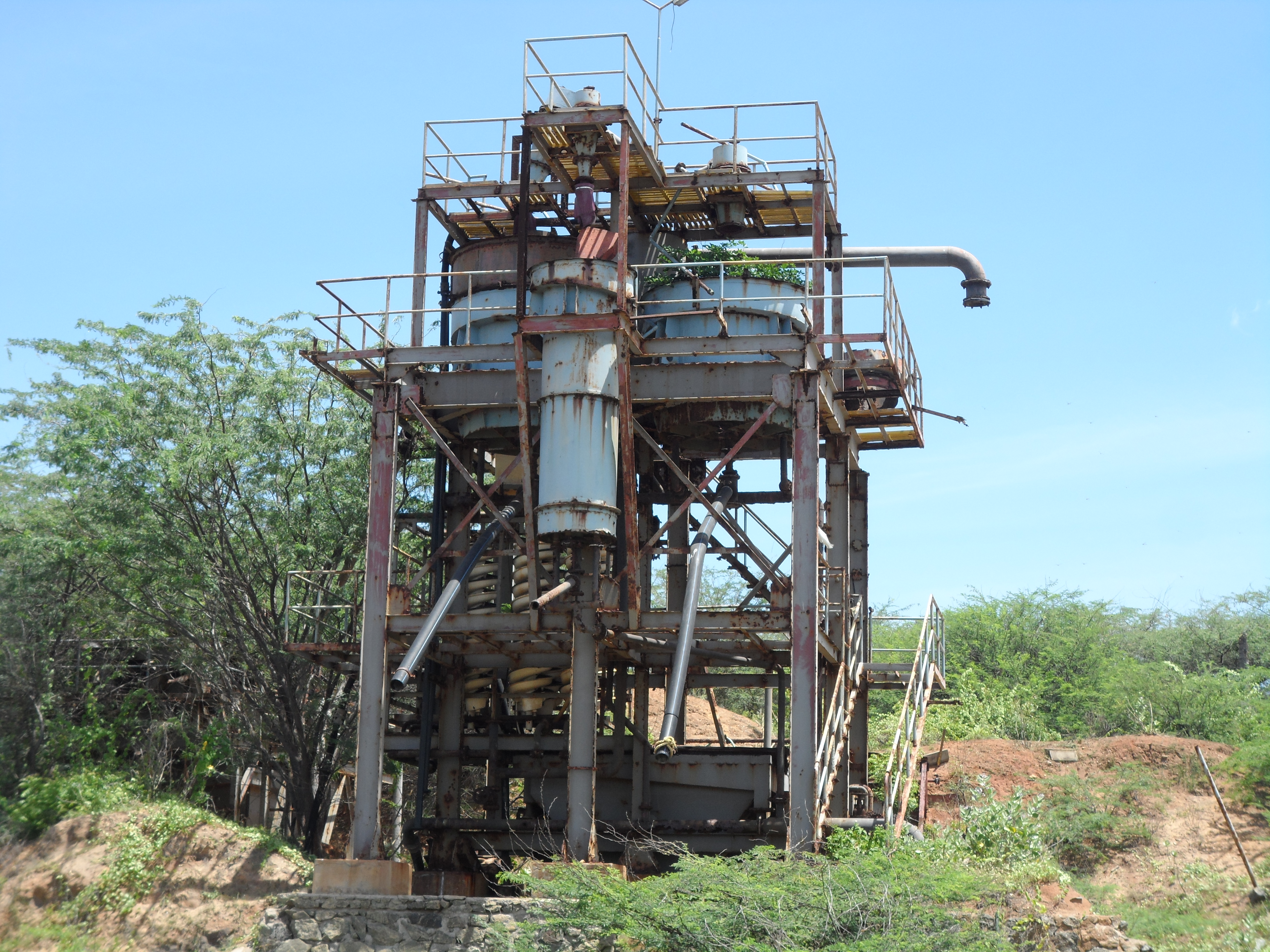 chinnamuttom